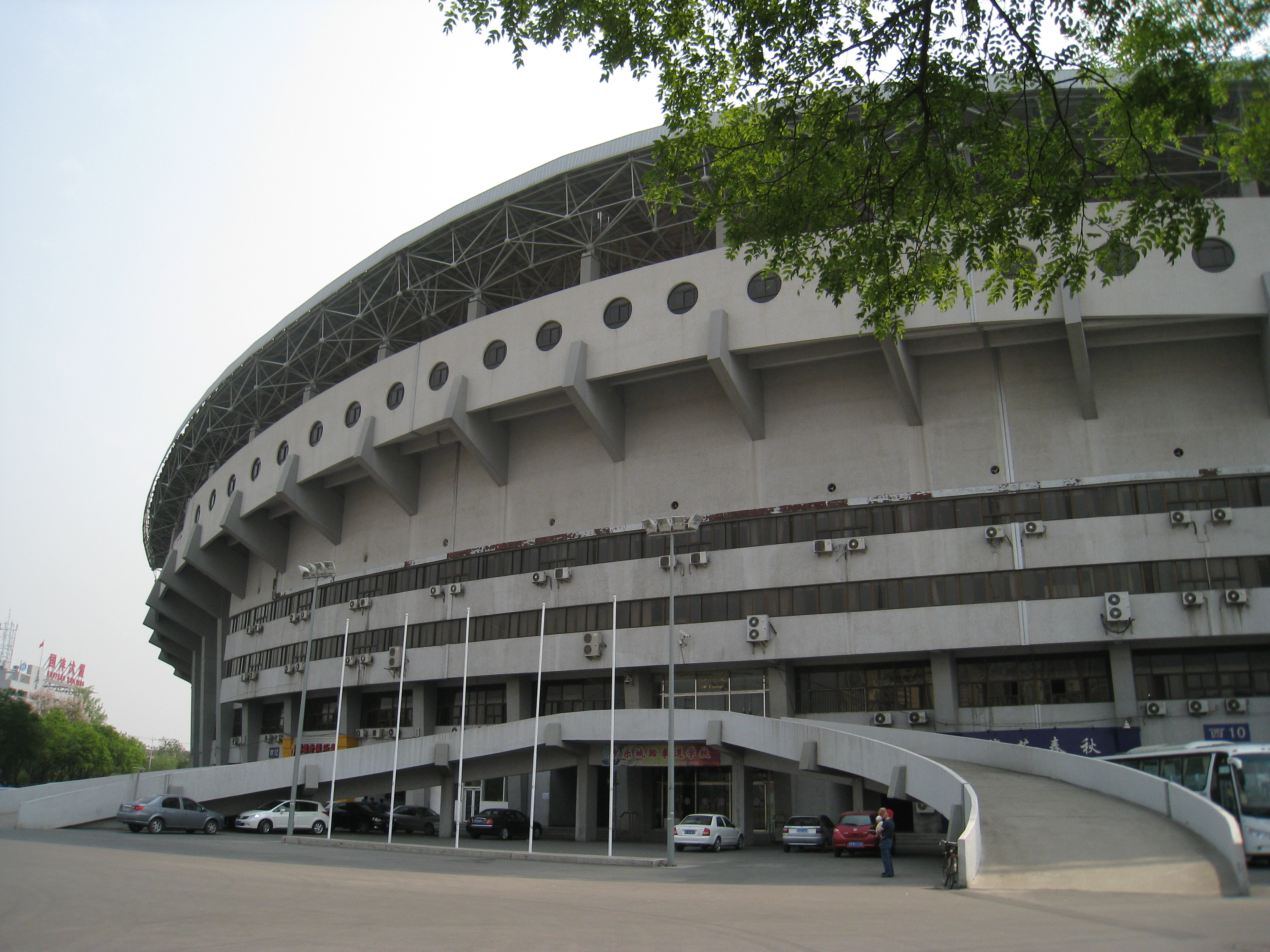 Fengtai Stadium. Main Stand